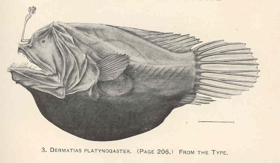 Dermatias platynogaster. From the type Subject: Dermatias Tag: Fish